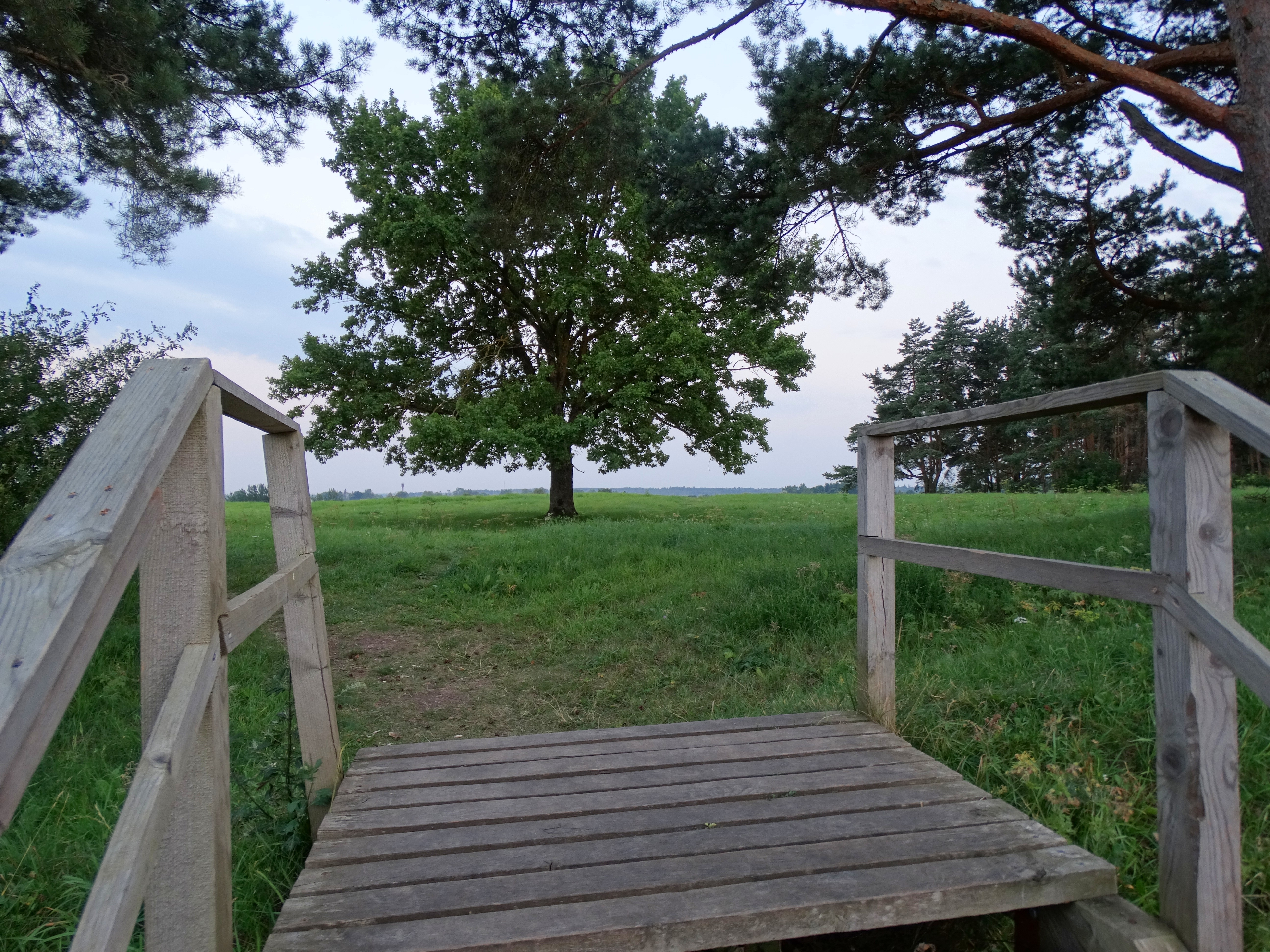 Žagarė hillfort or Žvelgaitis hill, Joniškis district, Lithuania